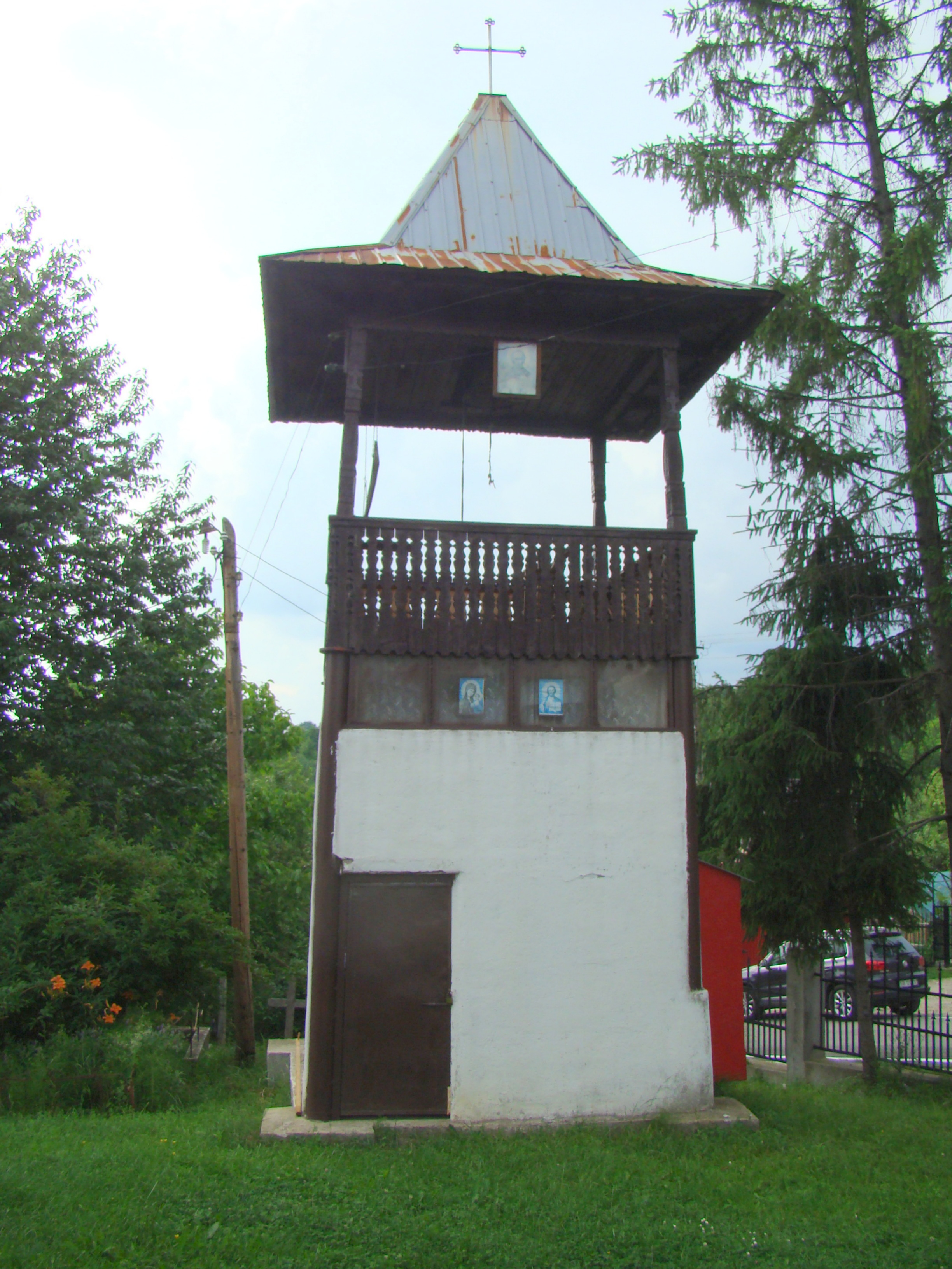 All Saints' church in Râmești, Vâlcea county, Romania